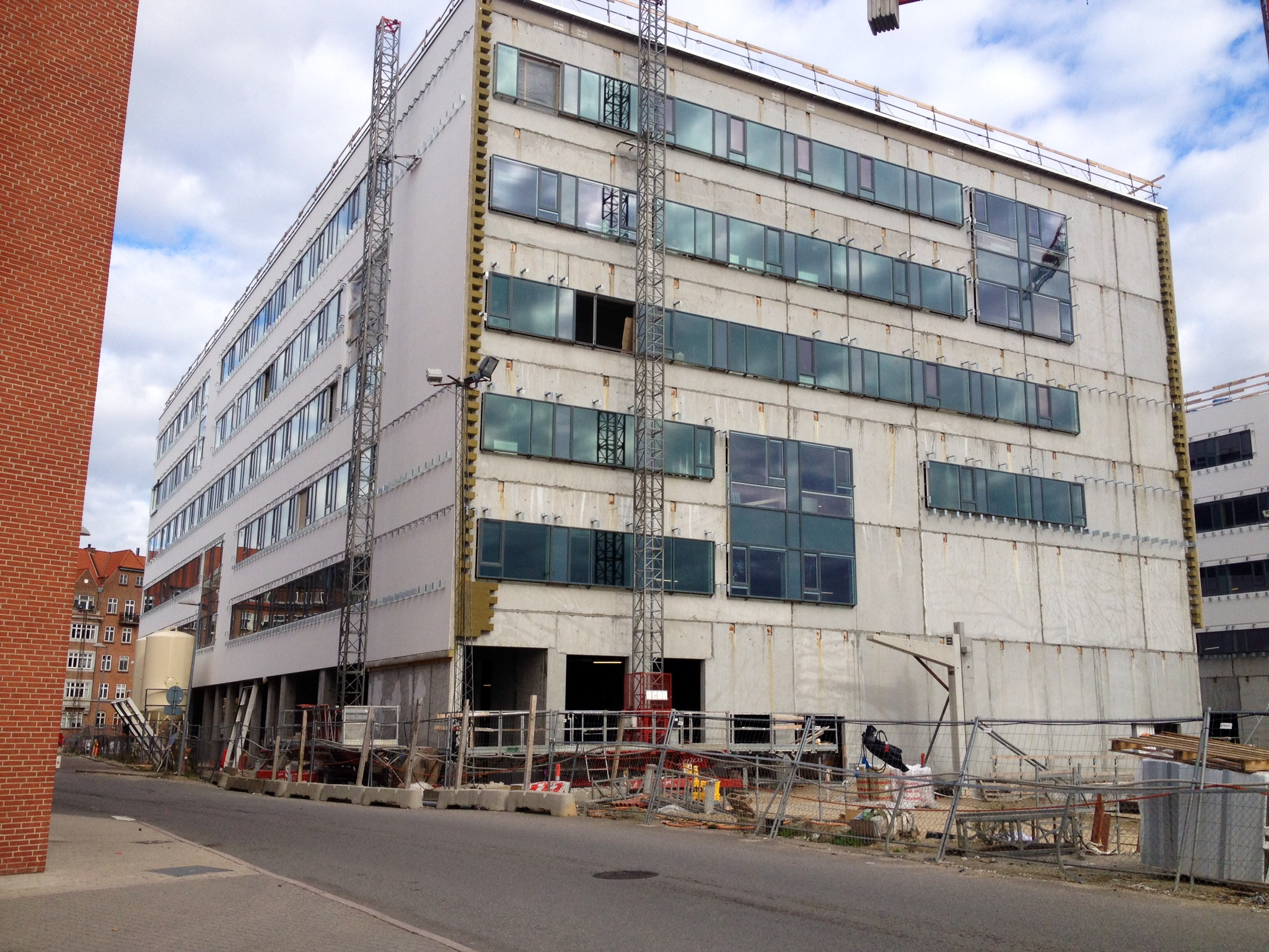 VUC&hf Nordjyllands nye bygning på Godsbanen set fra Kennedy Arkaden i september 2013